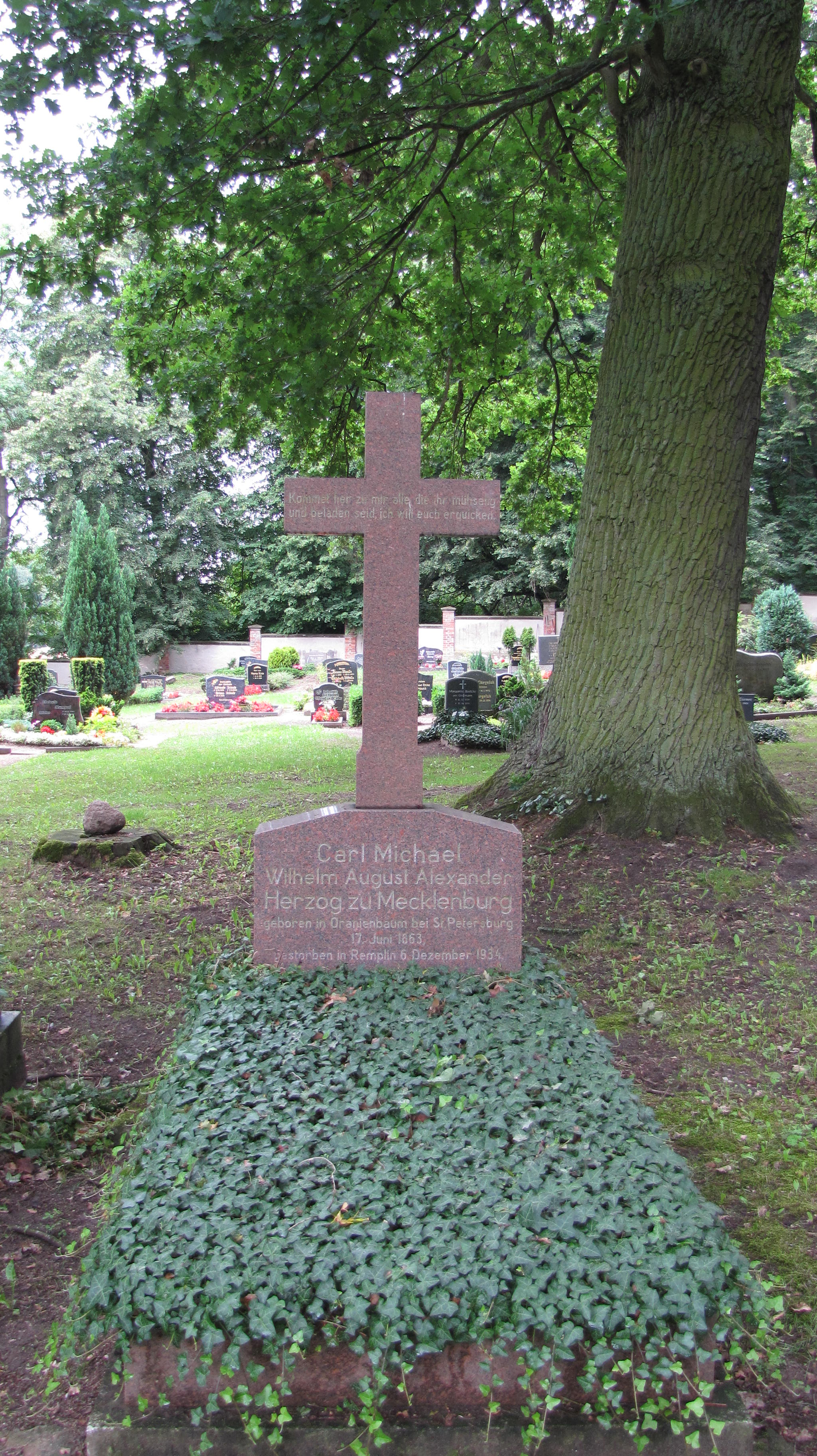 Grave of Carl Michael zu Mecklenburg in Remplin